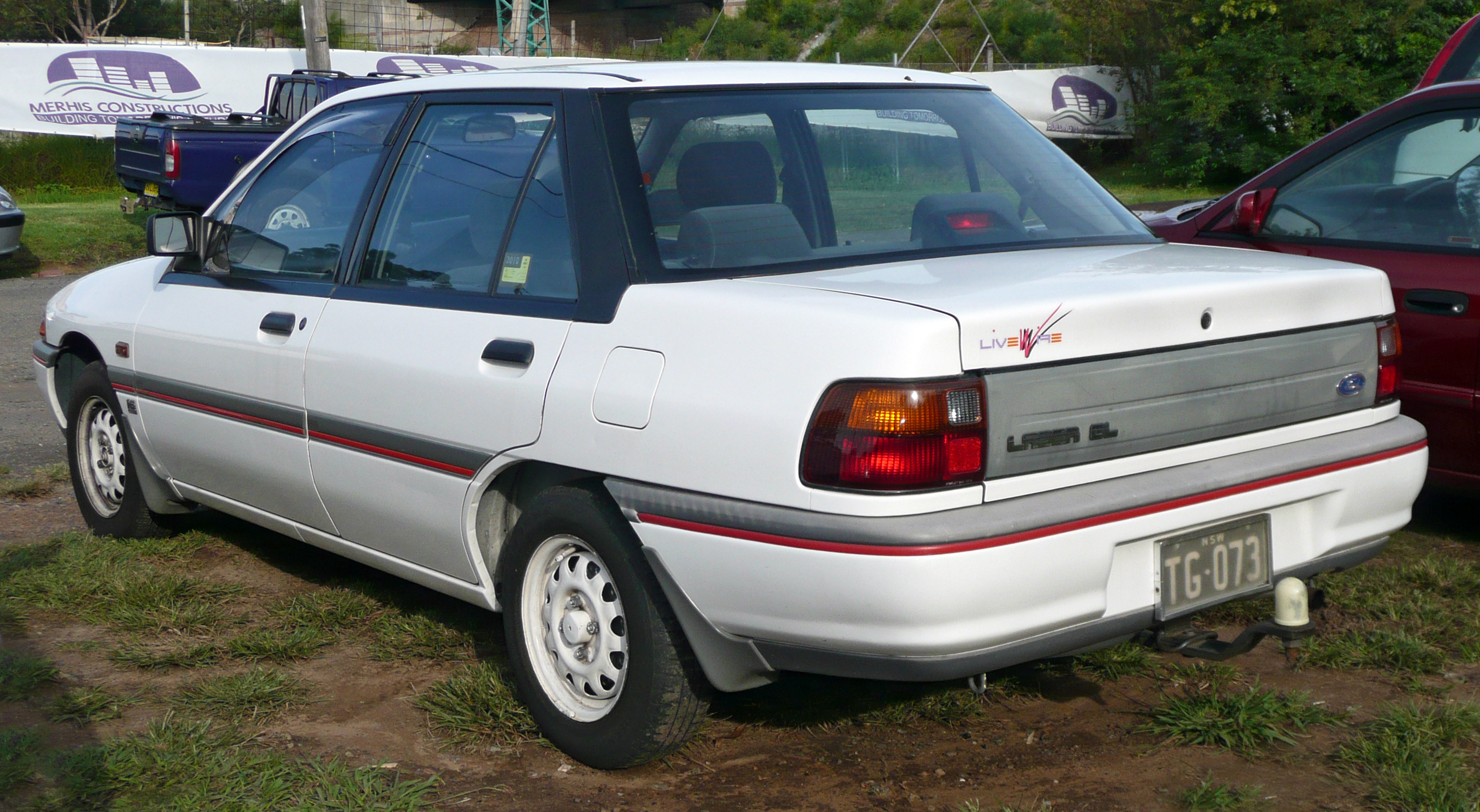 1991 Ford Laser (KF) GL Livewire sedan. Photographed in Sutherland, New South Wales, Australia.